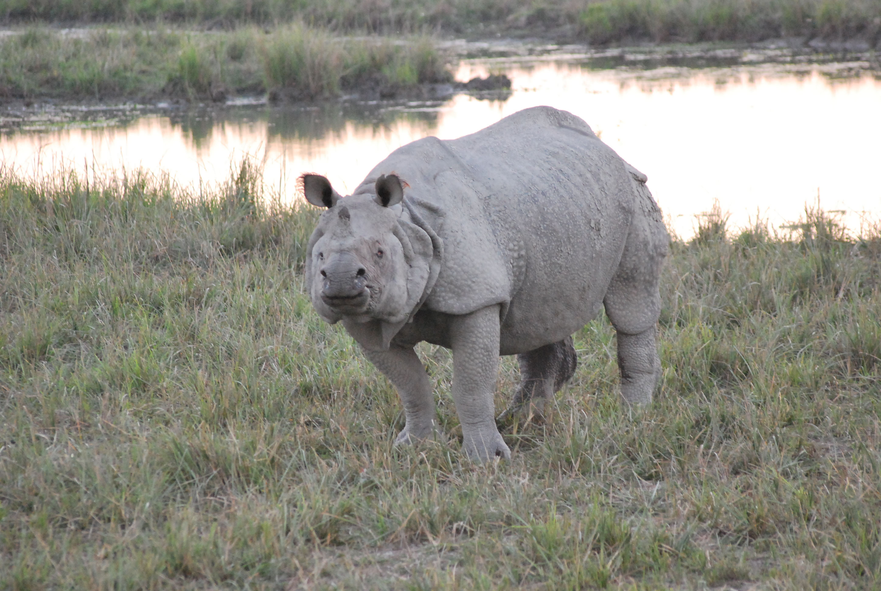 Rhino at Pobitora WLS